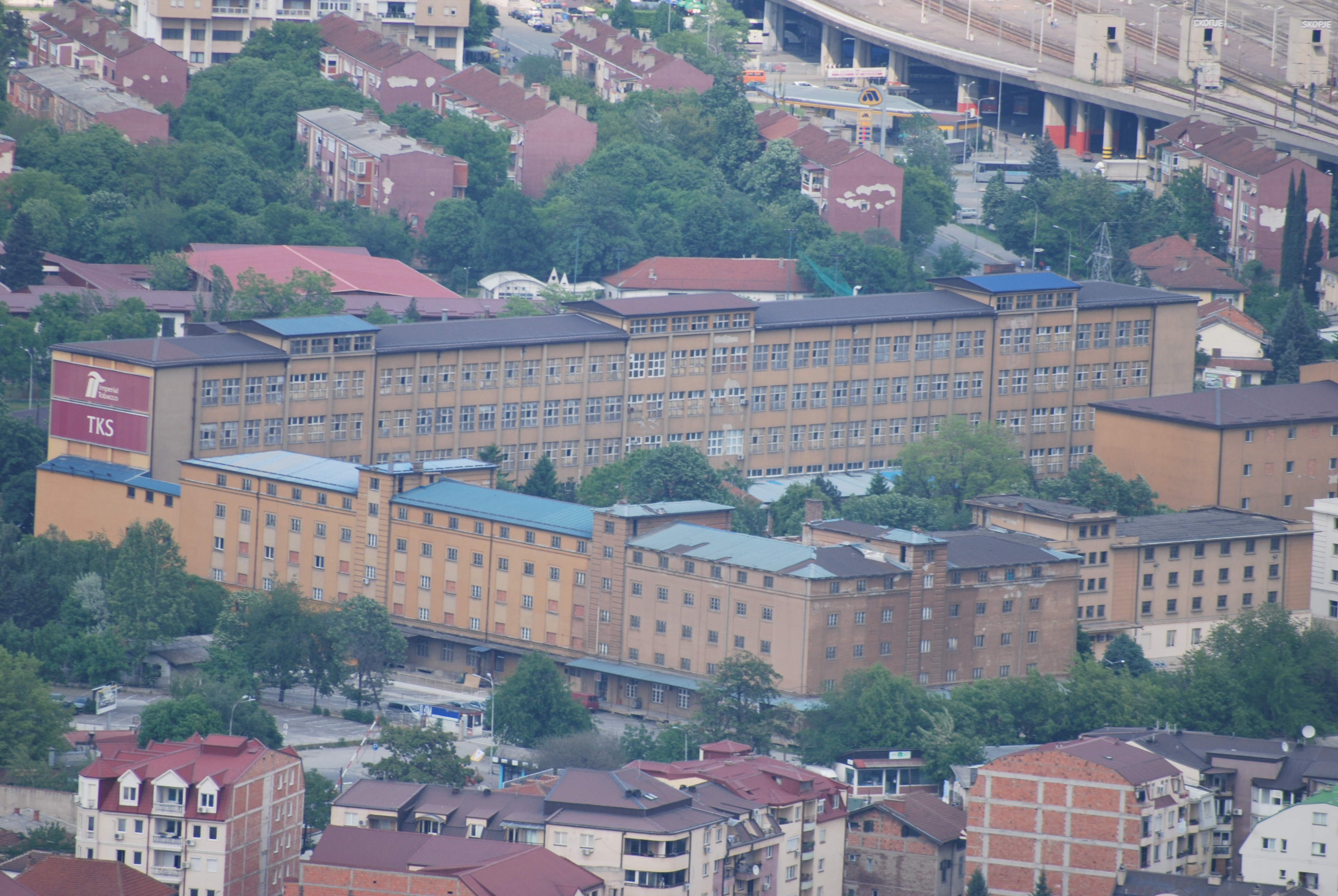 Skopje, Macedonia